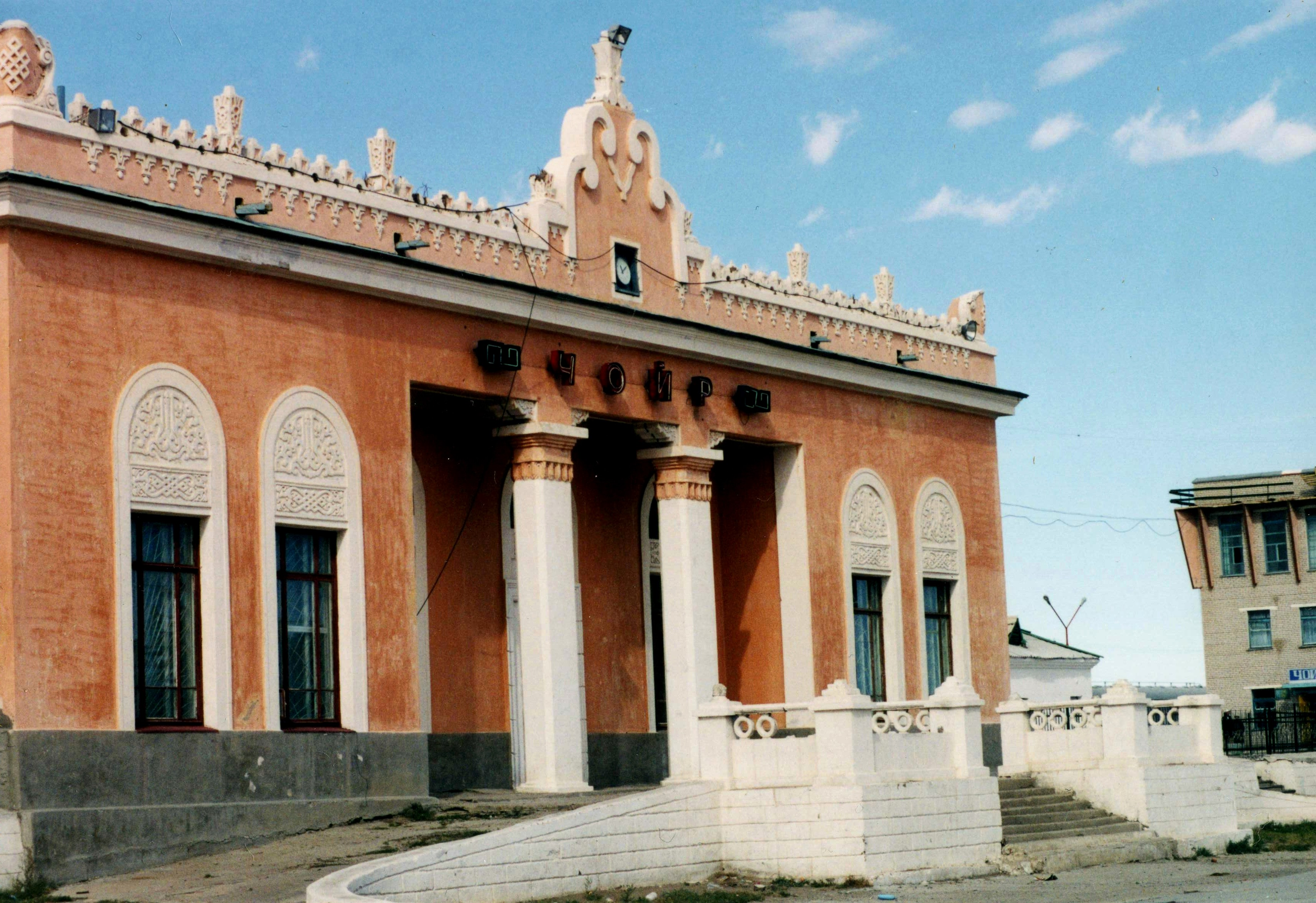 Railroad station at Choir, Mongolia